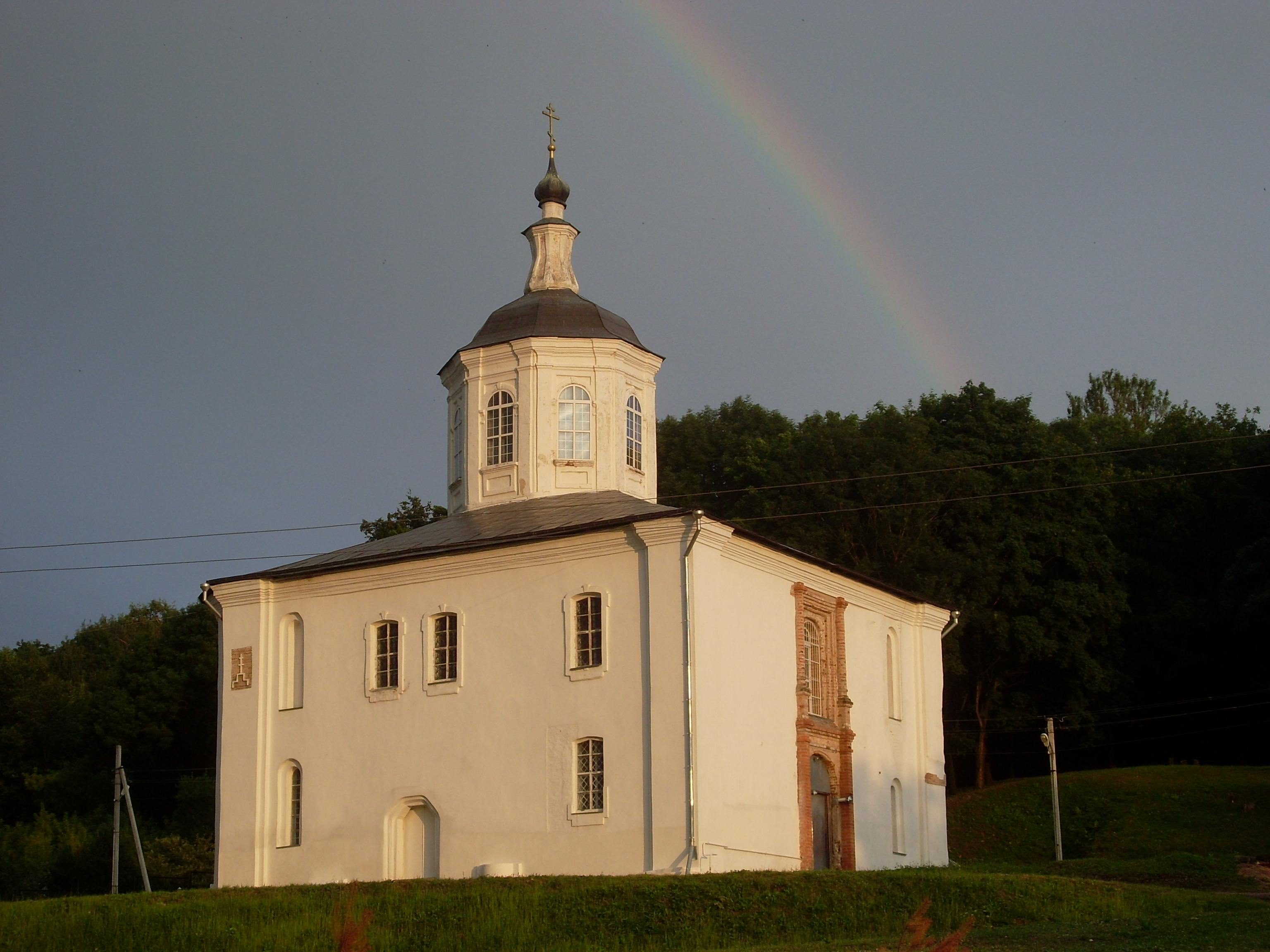 Church of St. John the Apostle in Smolensk (mid-12th century, rebuilt in the 18th century)